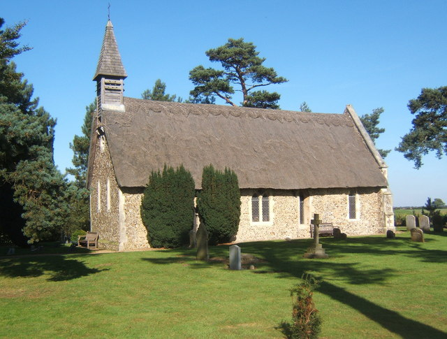 Parish church of St Augustine of Canterbury, Harleston, Suffolk, seen from the southwest